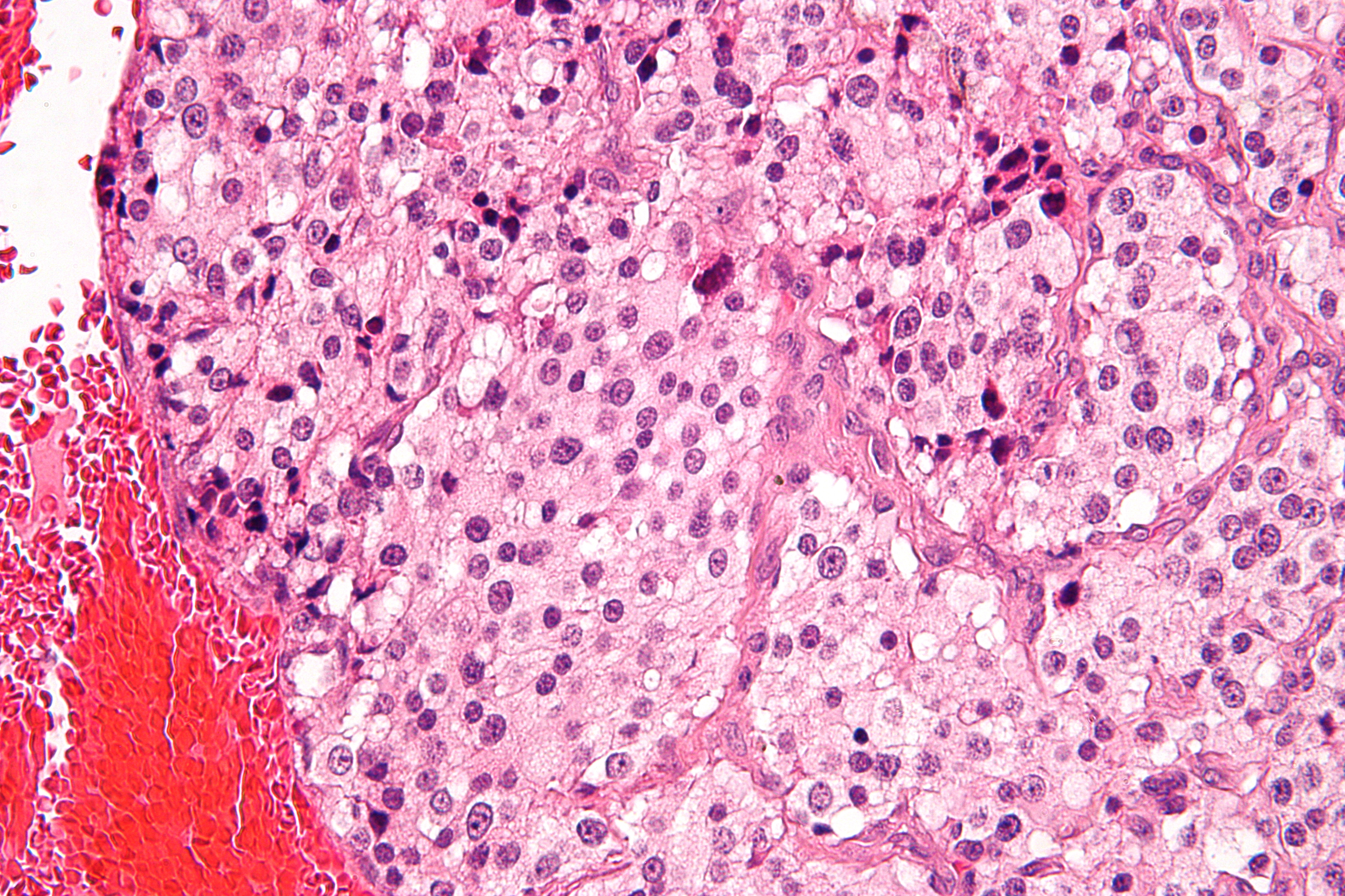 High magnification micrograph of a carotid body tumour, a paraganglioma. H&E stain. Pheochromocytoma is the most common type of paraganglioma. Histomorphologic features of paragangliomas: Zellballen ("cell balls" in German) - nests of cells. Fibrovascular septae. Finely granular cytoplasm (salt-and-pepper chromatin). Related images Low mag. Intermed. mag. High mag.